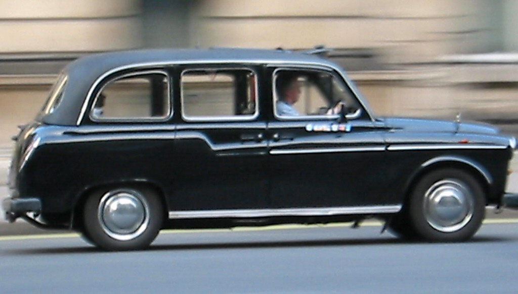 London black cab (Hackney carriage)